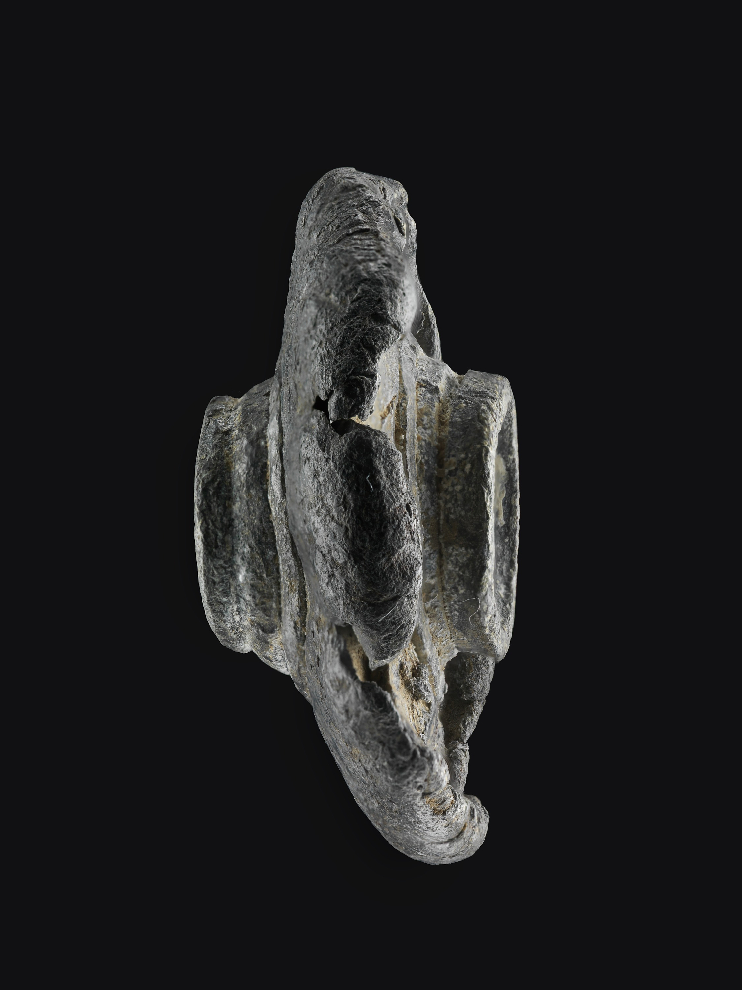 These two minie balls from opposing sides met head-on during fierce fighting at the Battle of Fredericksburg, Virginia, in December 1862.